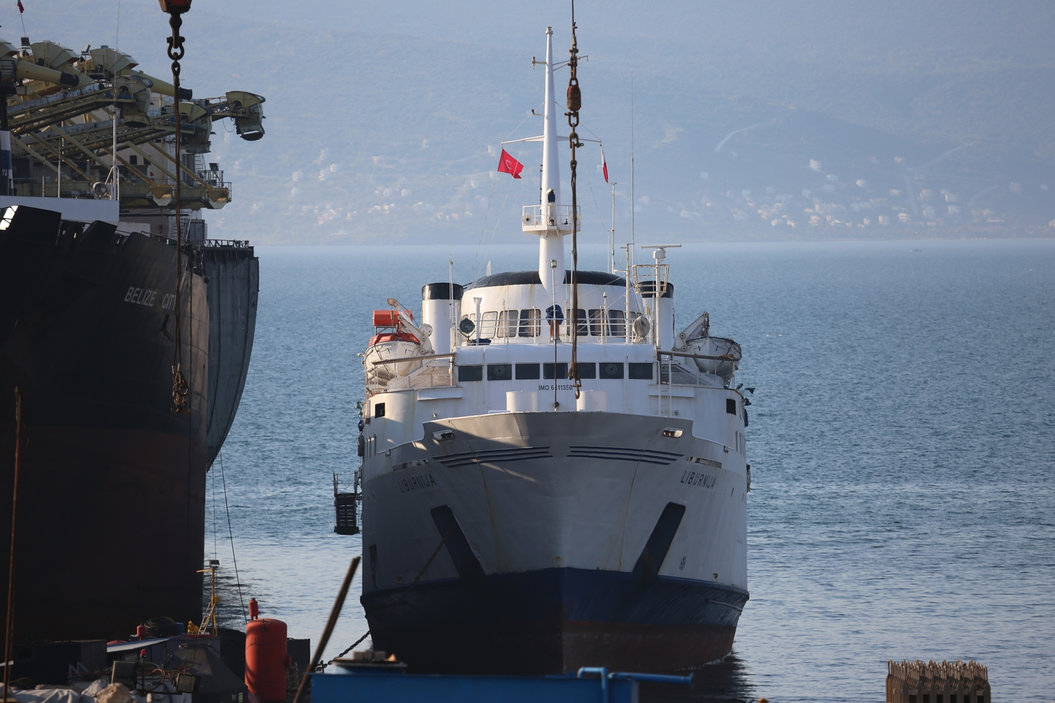 The Liburnija during its scrapping at Aliağa on April 12, 2015.